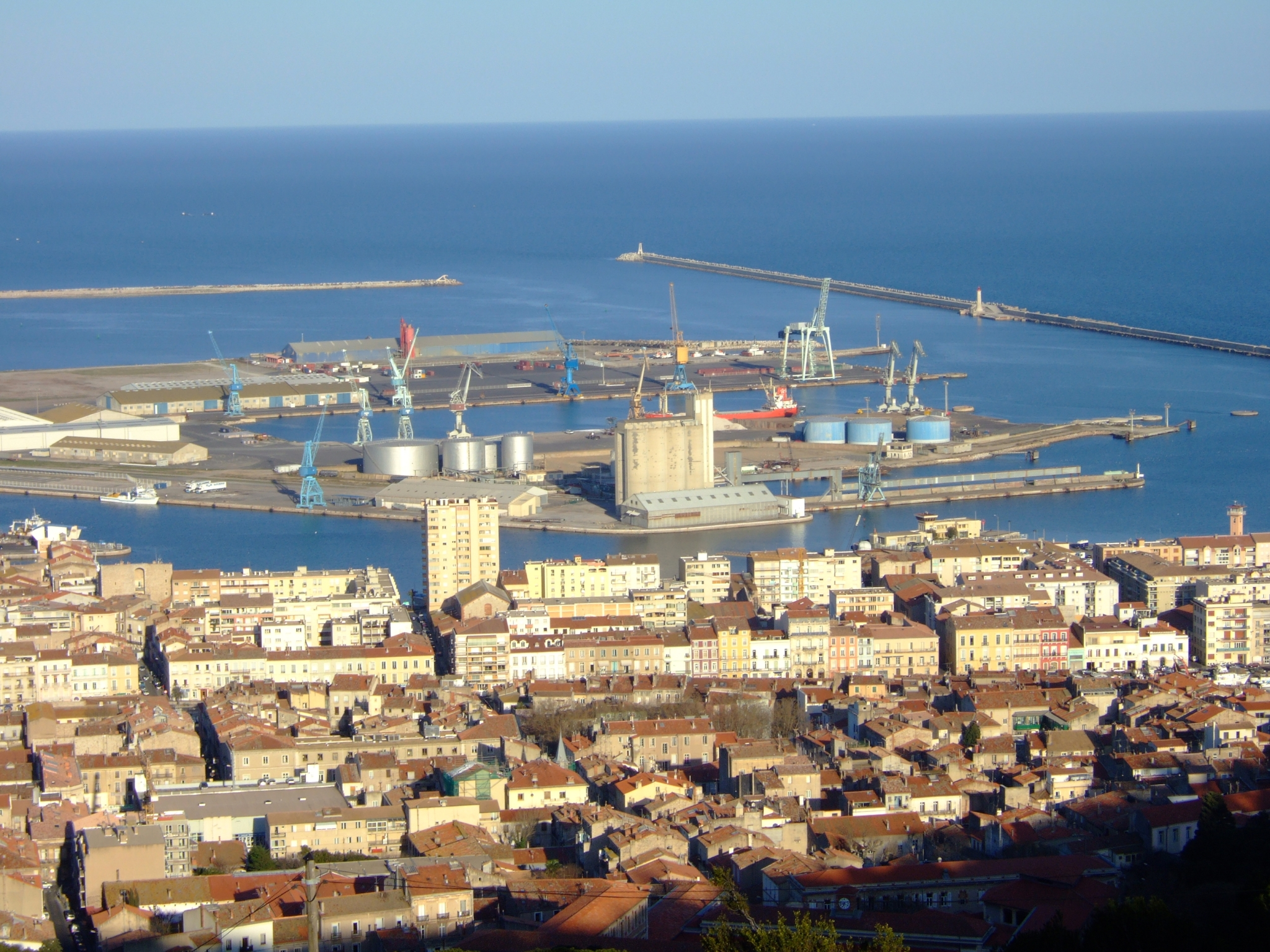 Sete harbour, France